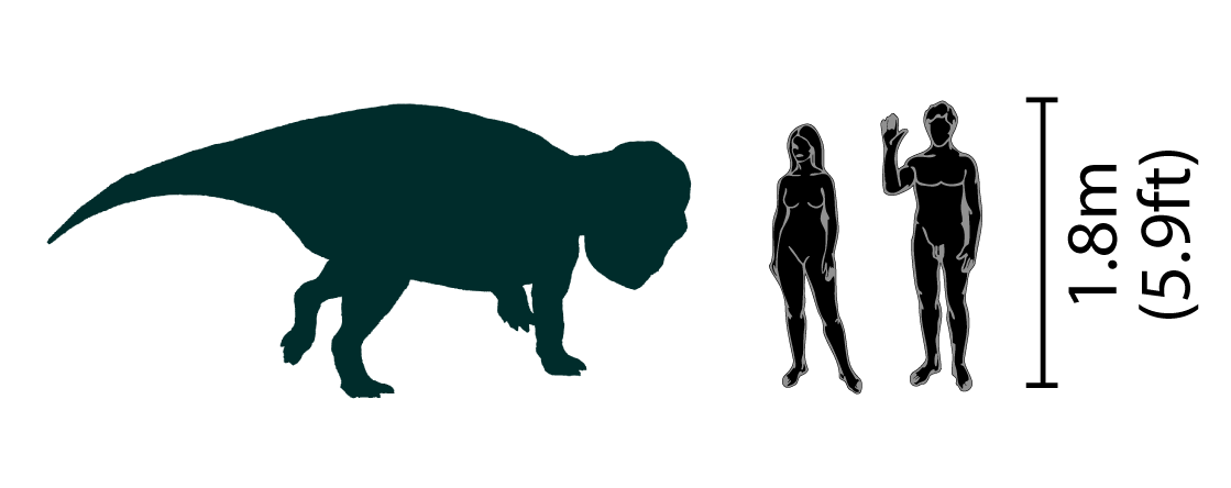 image by me user debivort, 12.06 Category:Approved dinosaur scale diagrams